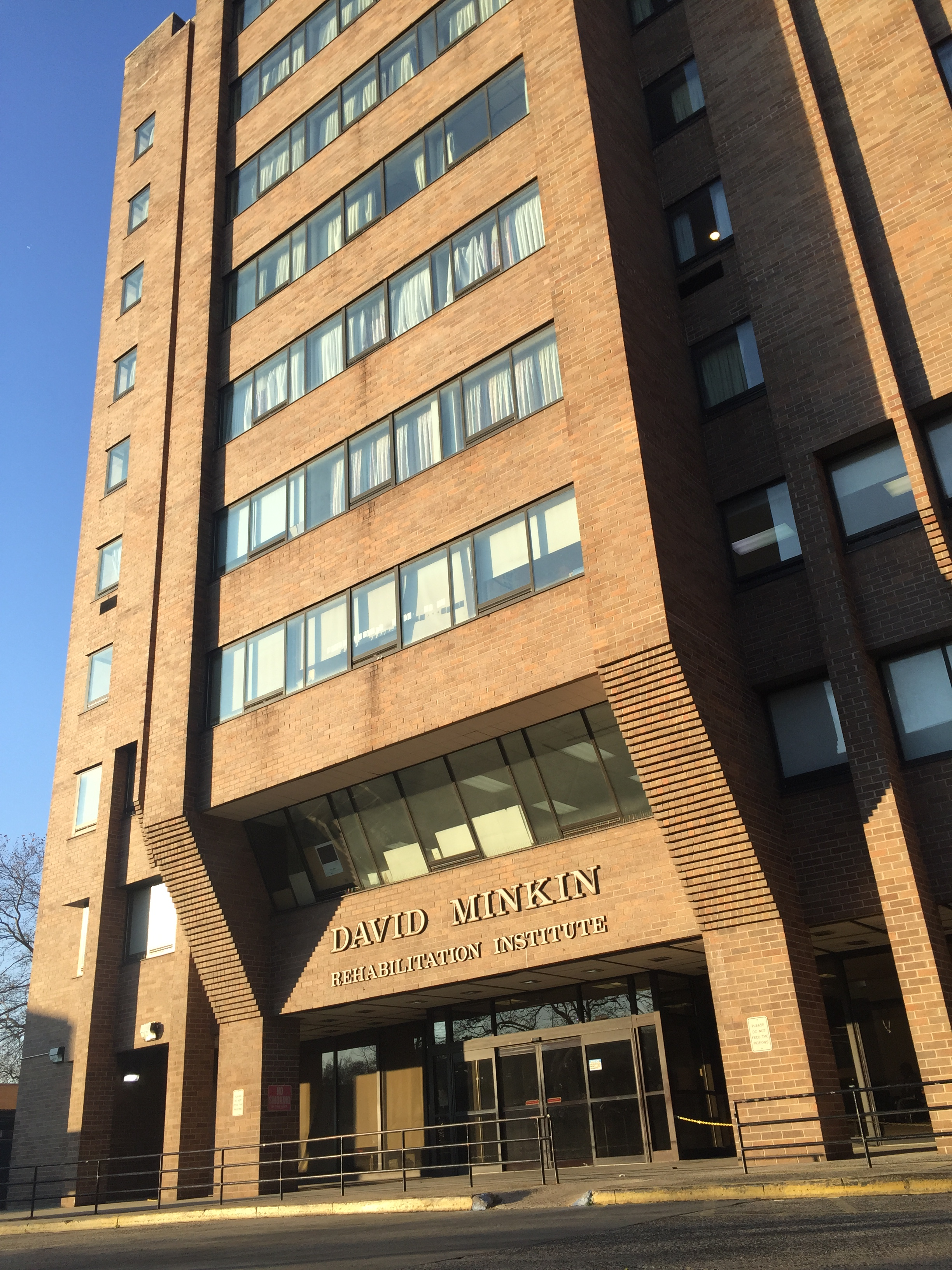 Present day photograph of the David Minkin Rehabilitation Institute which is also known as Rutland Nursing Home